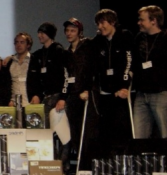 The center person is Fifflaren.